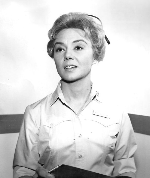 Photo of Peggy McCay from the television program Ben Casey.